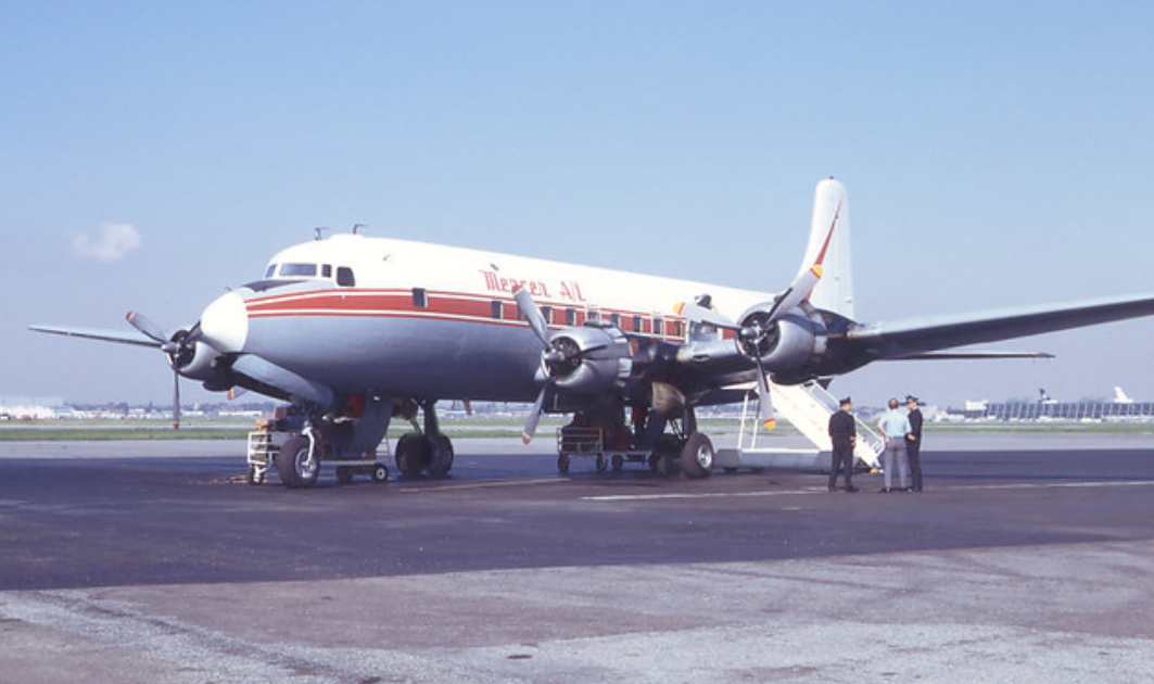 Image scanned from a 35mm Slide--Please tag this photo so that the data can be stored with our Digital Asset Management System.